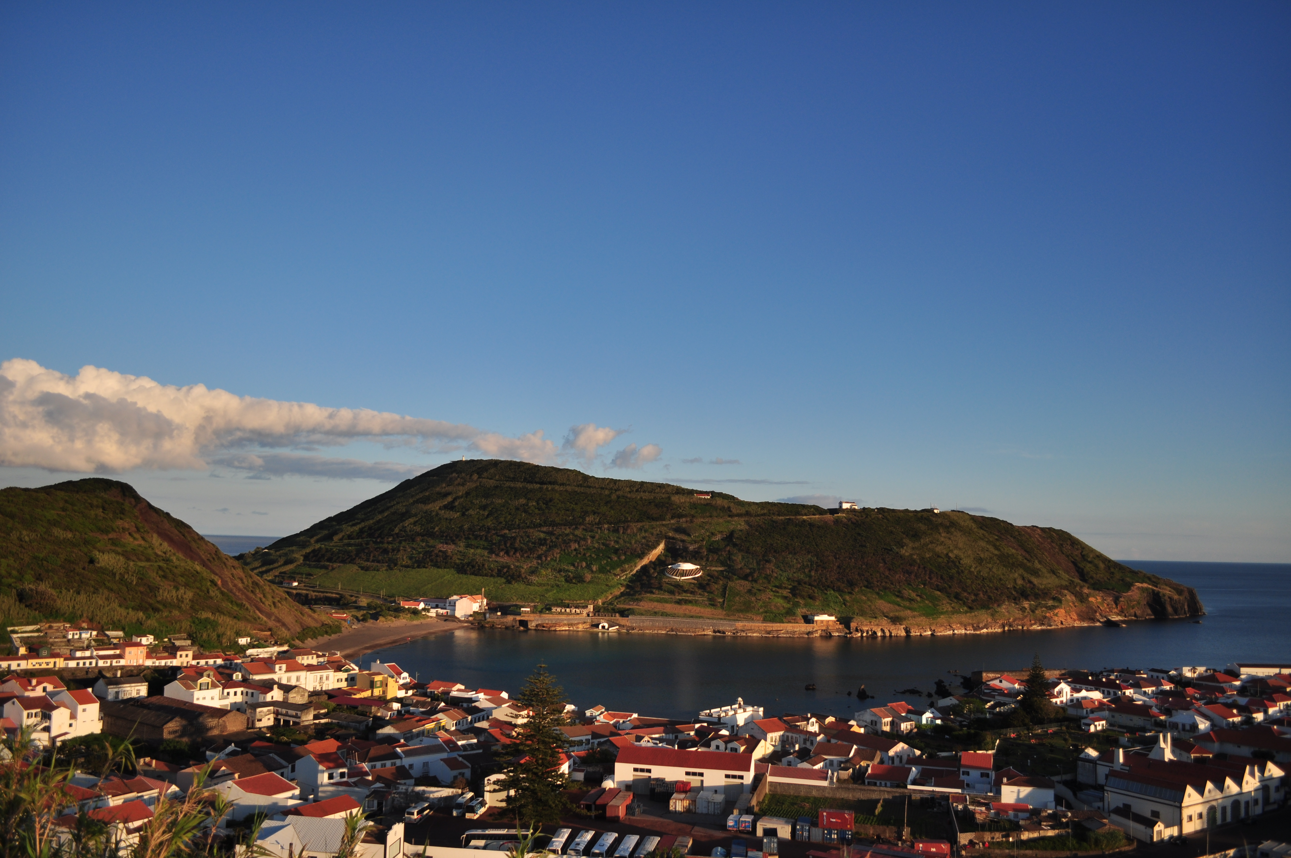 beach 2